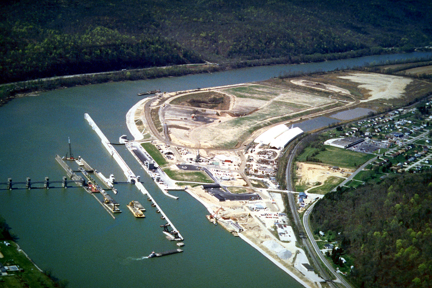 Winfield Lock and Dam on the Kanawha River, operated by the U.S. Army Corps of Engineers. The lock and dam are located at Winfield, West Virginia, 31 miles upriver from the mouth.